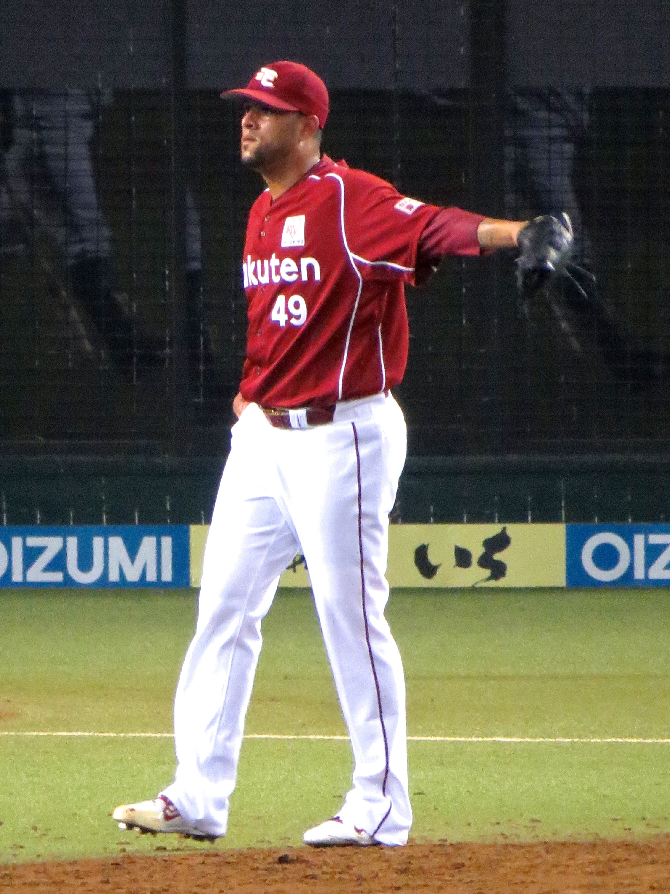 Rhiner Cruz, pitcher of the Tohoku Rakuten Golden Eagles, at Seibu Dome.